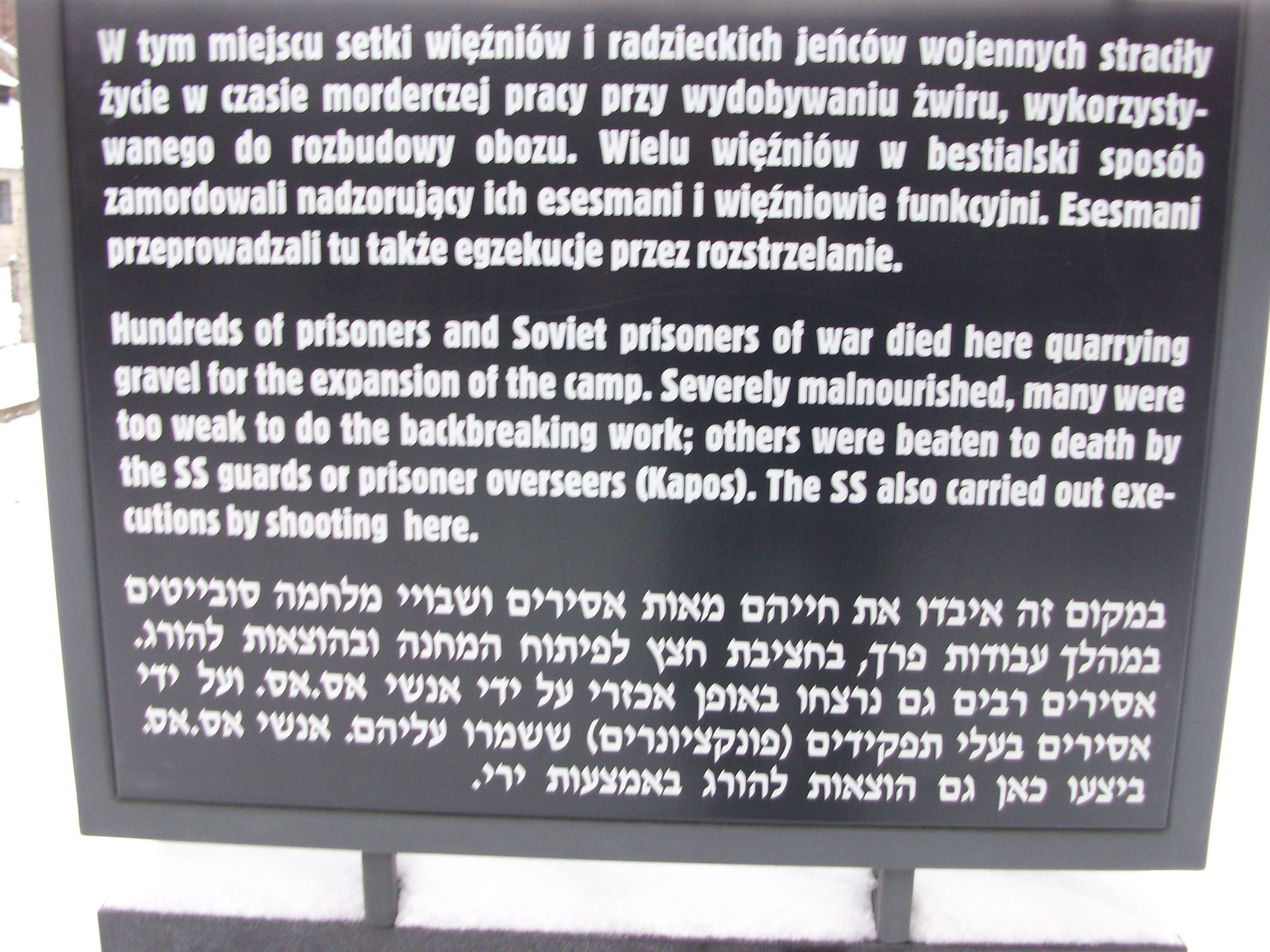 Information about Auschwitz Camp in Polish, English and Hebrew.